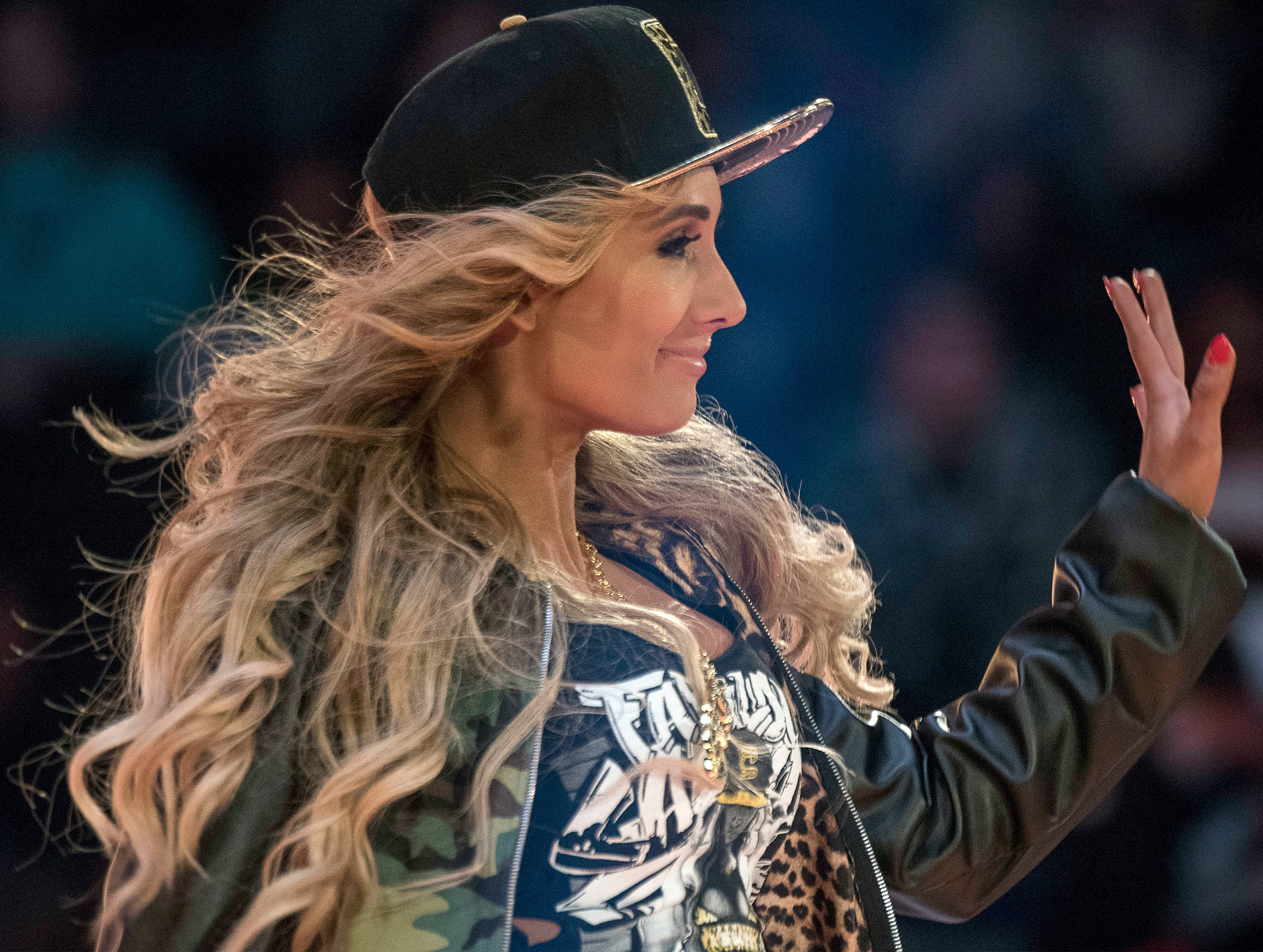 WWE Superstar Carmella performing her entrance during a WWE SmackDown show in December 2016